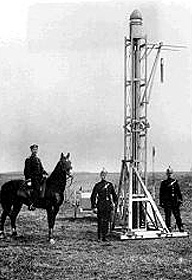 Alfred Maul's rocket, the first instrumented rocket.